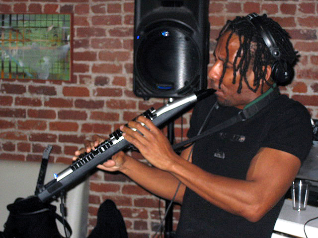 There is only one way to describe Onyx Ashanti on the wind controller: bad ass.